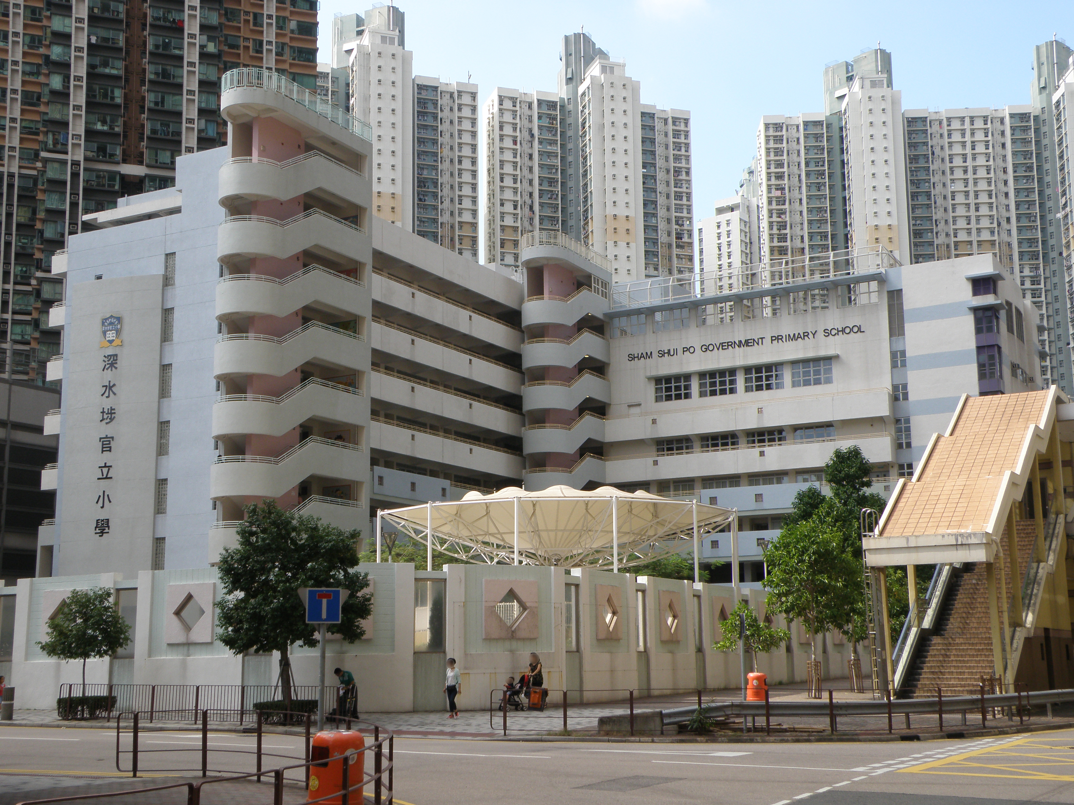 Sham Shui Po Government Primary School in Lai Chi Kok, Hong Kong.